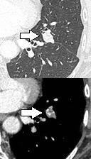 Original caption: Incidental finding of a solitary pulmonary nodule in a 50-year-old man. Axial CT-image in lung window setting a shows a well-delineated nodule with clear lobulated morphology in the left upper lobe. The absence of growth, internal benign-looking calcifications and clear hypodense areas (corresponding to fat) on the images in mediastinal window setting b led to the probable diagnosis of a hamartoma